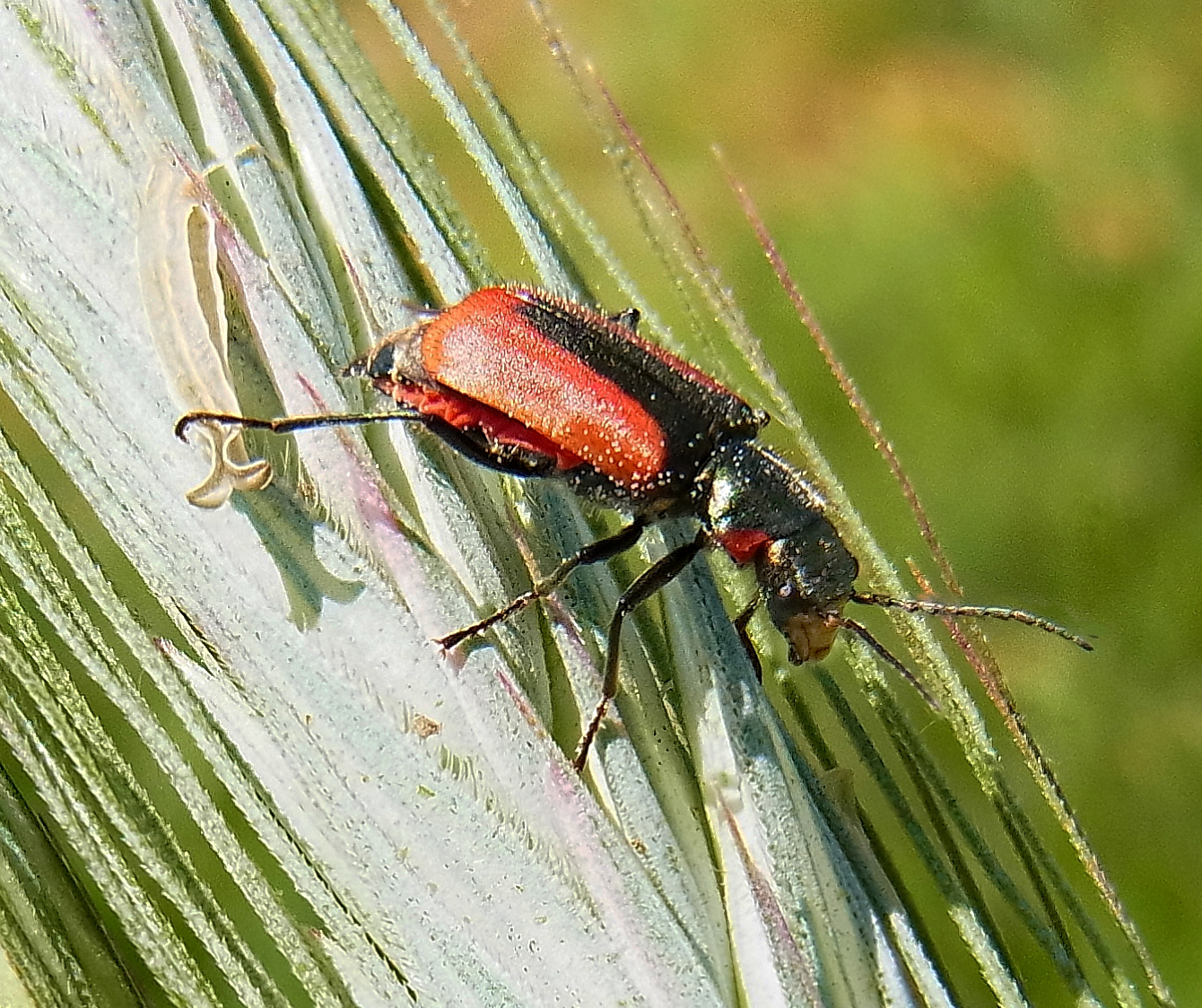 Malachius aeneus female from Southern Hungary, Mórahalom, on grain at 2012-05-31